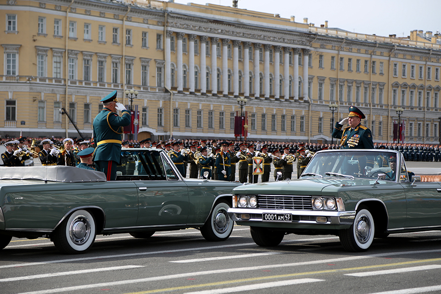 The St. Petersburg Victory Day Parade on Palace Square on May 9, 2017.